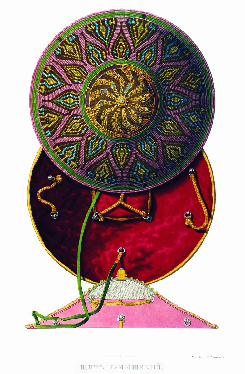 Shield "Kalkan".